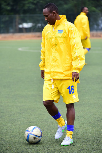 Iranzi playing for Rwanda in January 2016